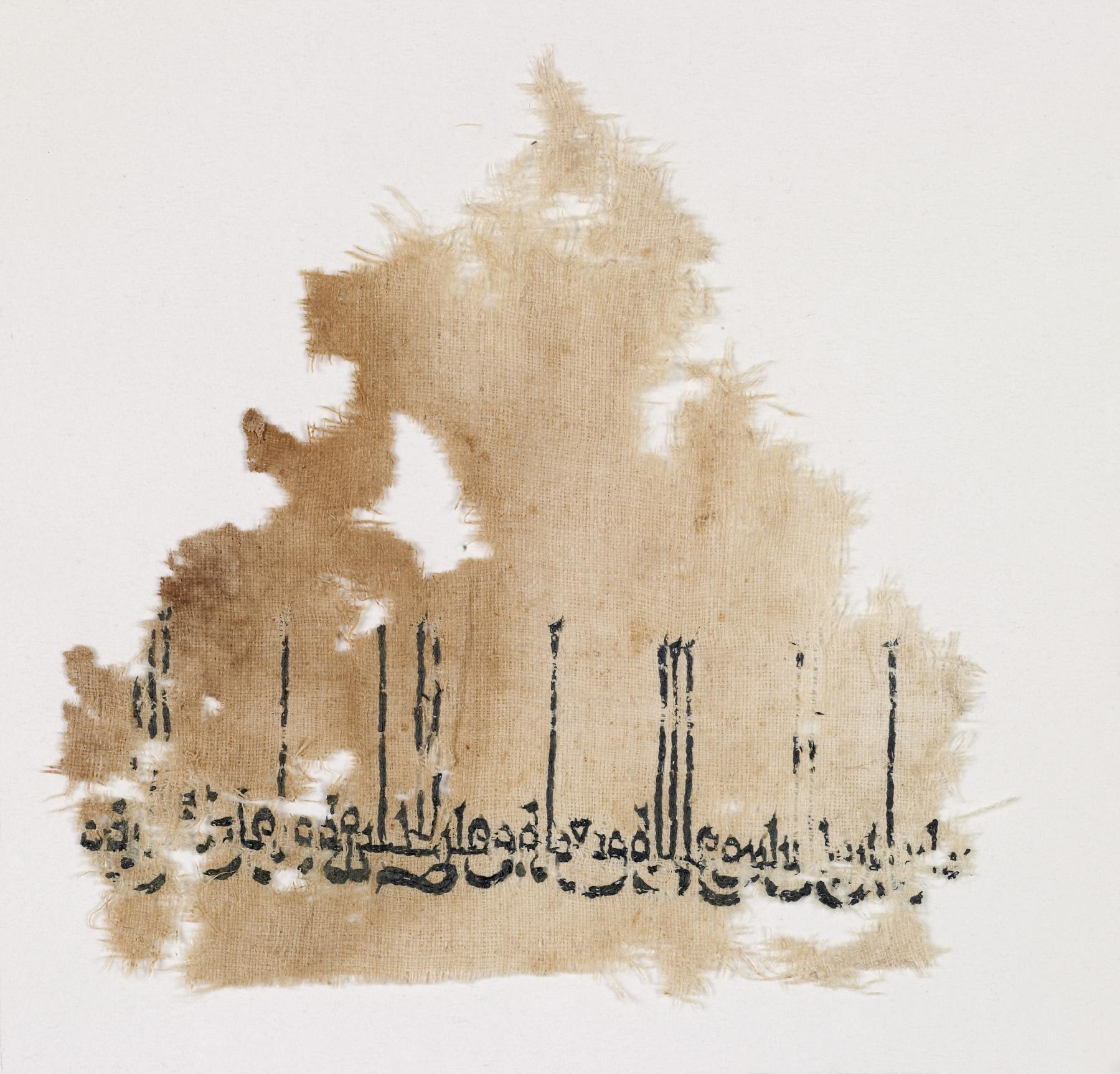 This fragment of a garment was woven in an official factory and decorated with an Arabic inscription. Such honorific inscriptions on textiles are called "tiraz" in Arabic, and "taraziden" in Persian. They combine pious invocations to God, verses from the Qur'an, and sometimes names of caliphs. On this example appears the phrase ". . . of Allah, and favor and glory to the servant of Allah. . .," a formula used to introduce the name of a caliph, a ruler of the Abbasid dynasty.